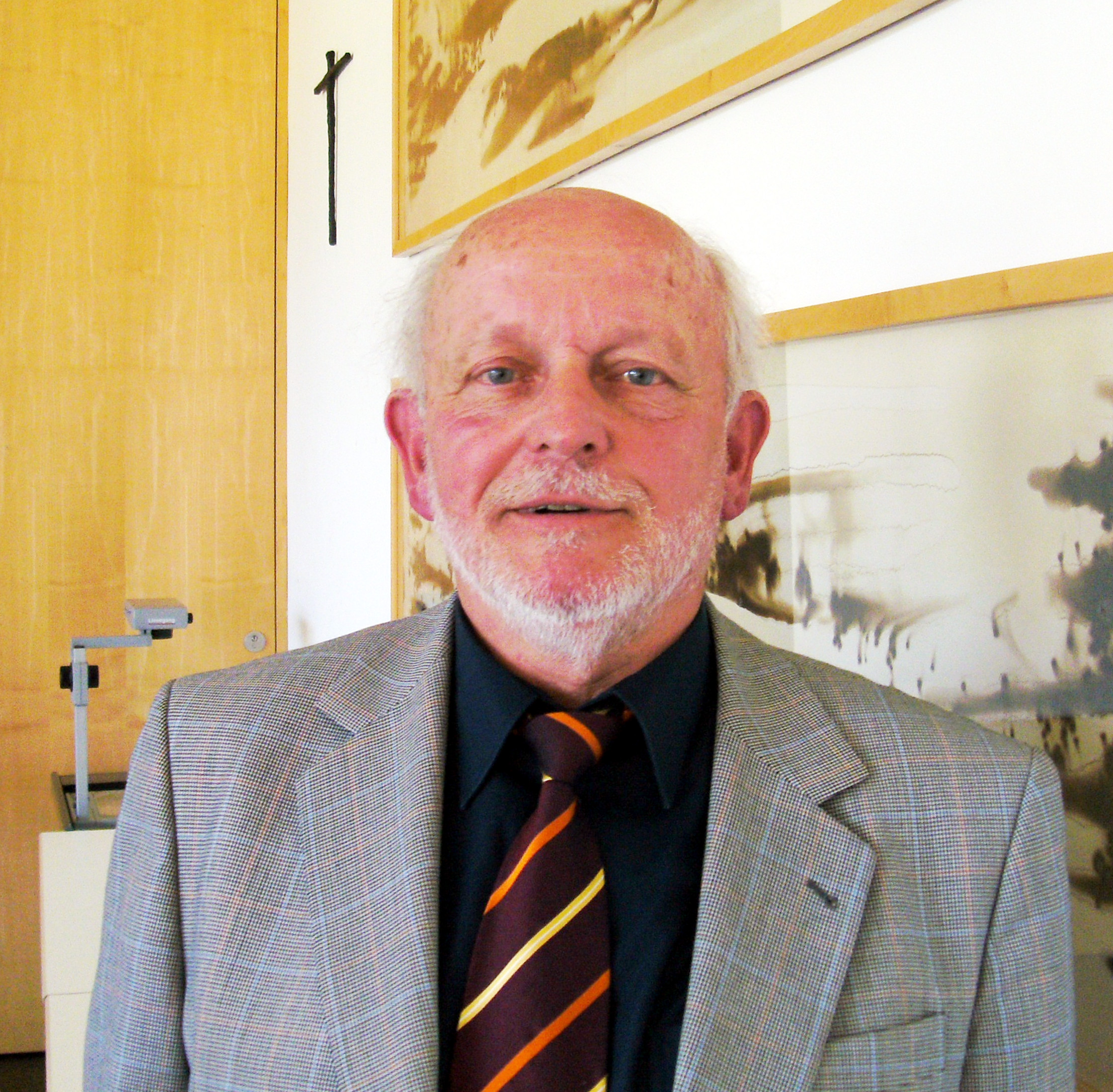 own file